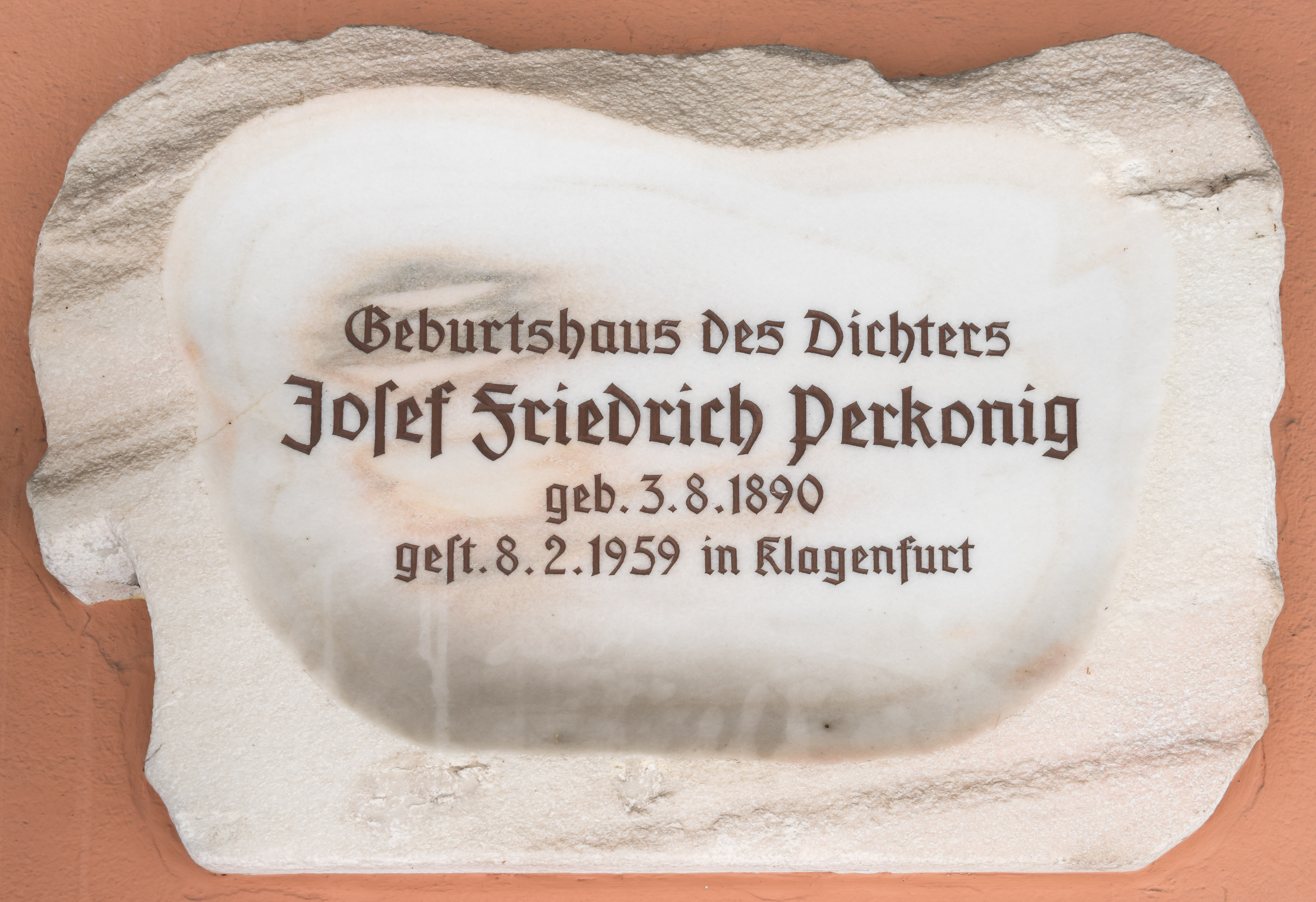 Plaque at the birthplace of the poet J.F. Perkonig on Hauptplatz, municipality Ferlach, district Klagenfurt Land, Carinthia, Austria, EU